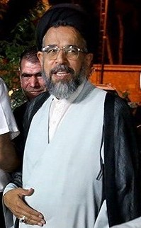 Mahmoud Alavi an Iranian cleric, politician and the minister of intelligence in Hassan Rouhani's government.